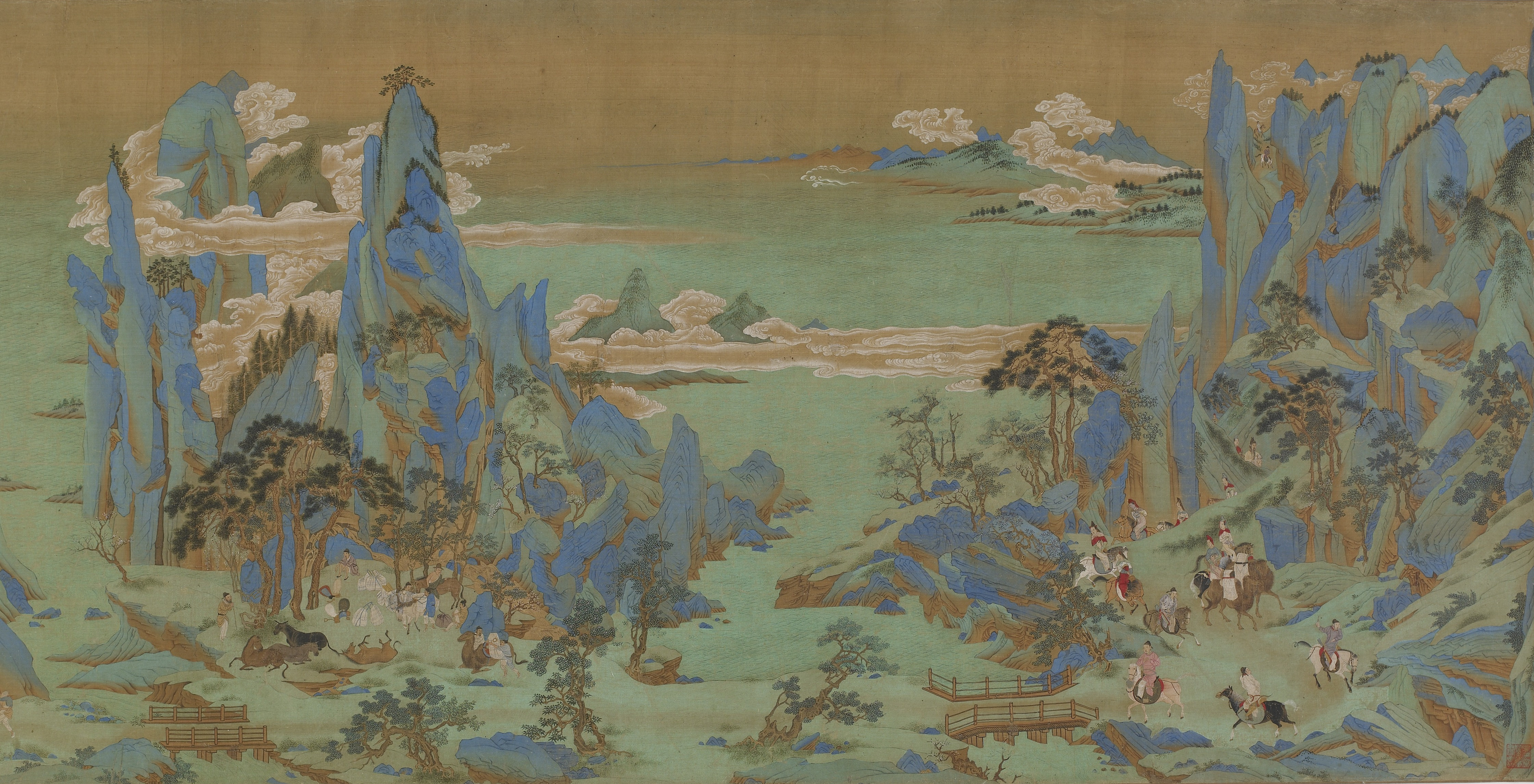 Emperor Minghuang's Journey to Sichuan; this section of a much larger Ming Dynasty (1368-1644) Chinese handscroll painting on silk shows Tang Minghuang, or Emperor Xuanzong of Tang, fleeing the capital Chang'an and the violence of the An Shi Rebellion that began in the year 755 during the mid Tang Dynasty. The scene shown in this painting follows the previous one, Yang Guifei Mounting a Horse. This handscroll painting is a late Ming copy after an original painting by the renowned Ming artist Qiu Ying (1494-1552). From the Freer and Sackler Galleries of Washington D.C. Author: User:PericlesofAthens Date: August 3, 2007